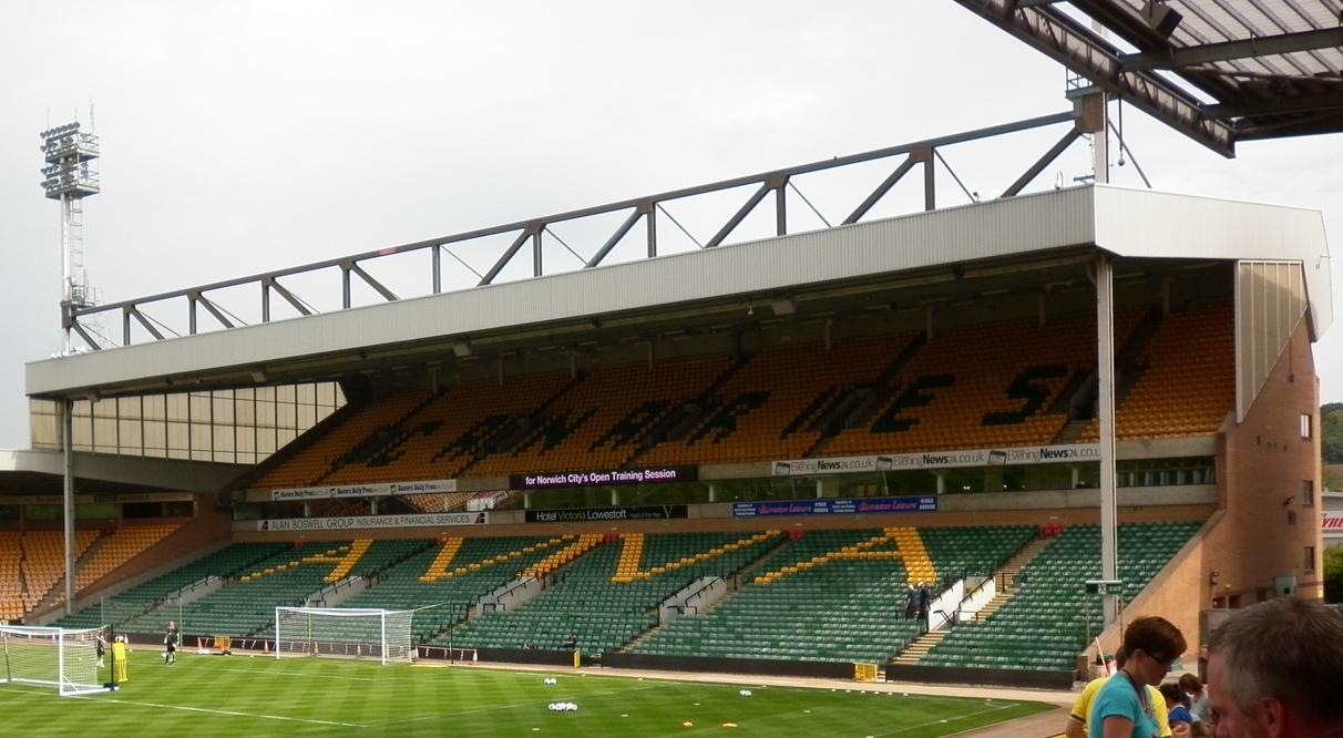 Looking towards The Barclay at Carrow Road. Taken at Norwich City's open training session on 2 August 2011.